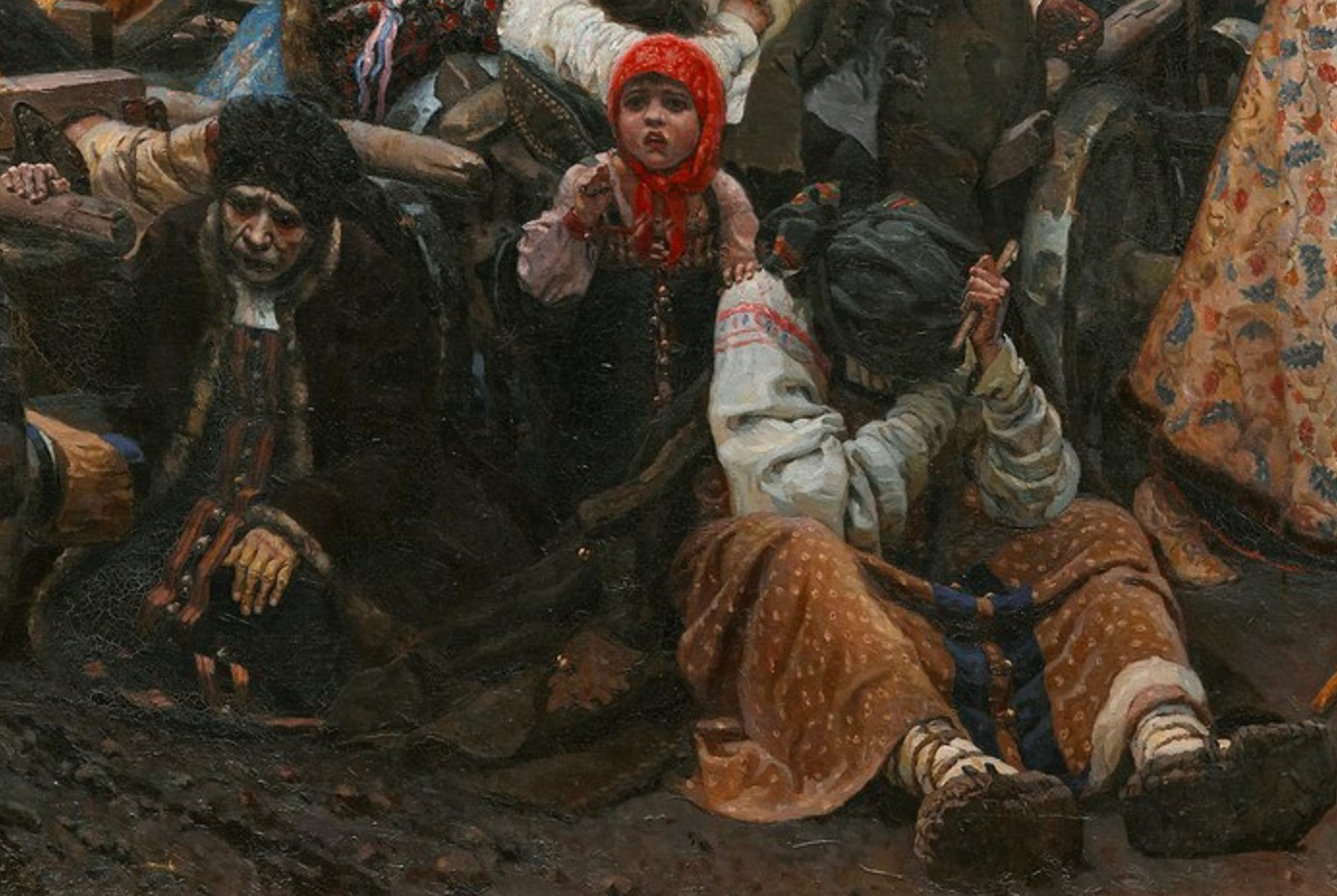 Detail of the painting "Morning of streltsy's beheading" by Vasily Surikov (1881)